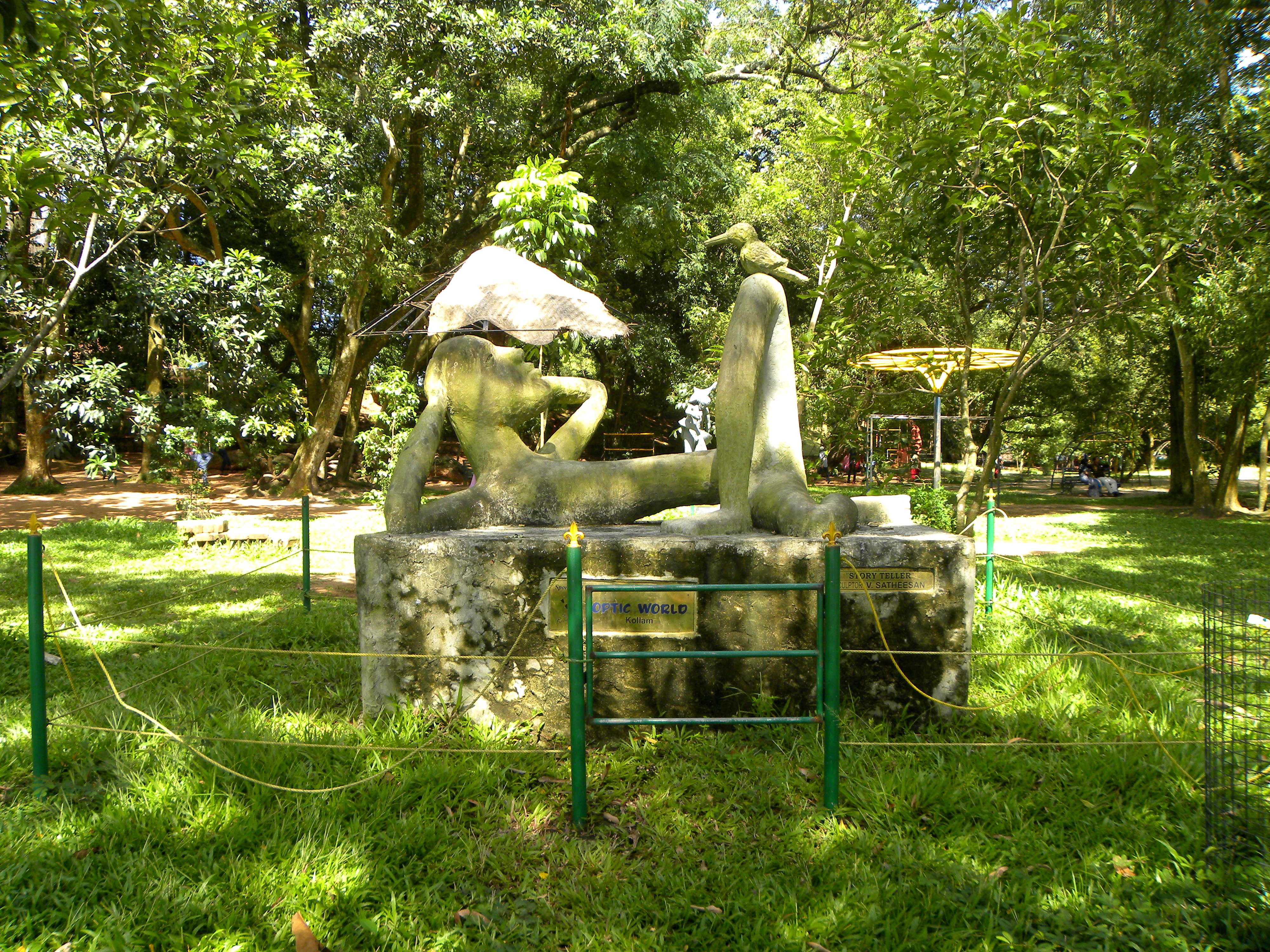 There are 10 sculptures in Asramam Adventure Park, one among the urban parks in Kollam city, India